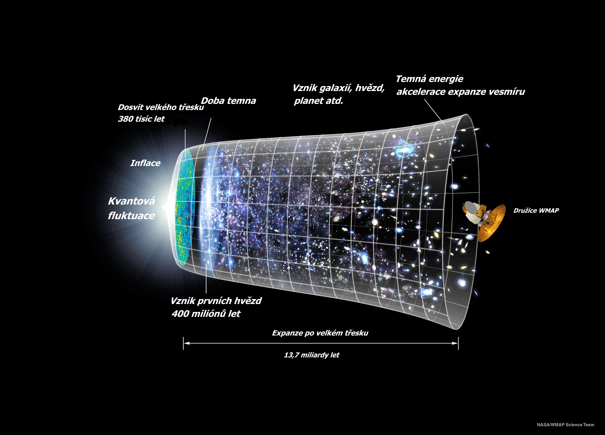 Universe timeline